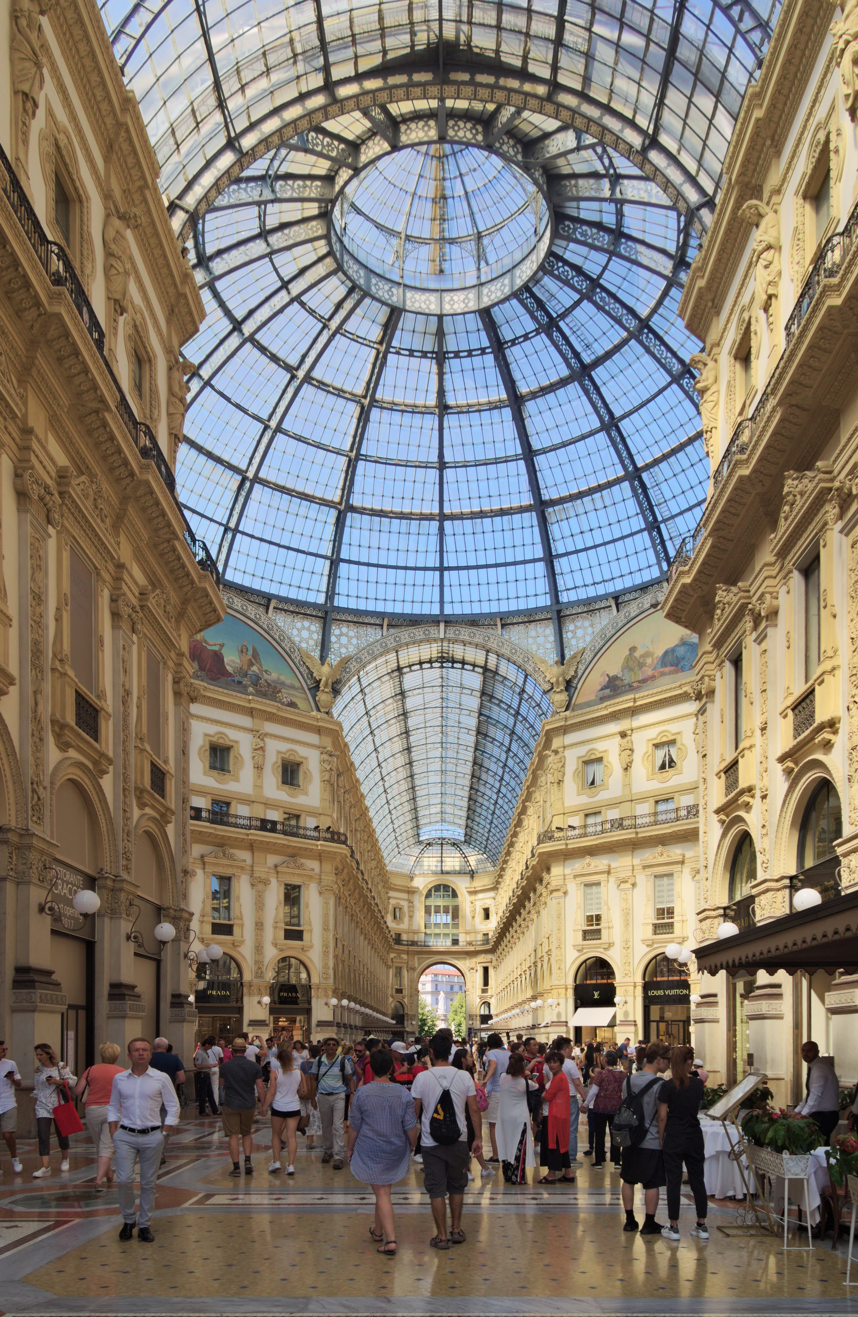 The interior of Galleria Vittorio Emanuele II, Milan, with its glass dome.